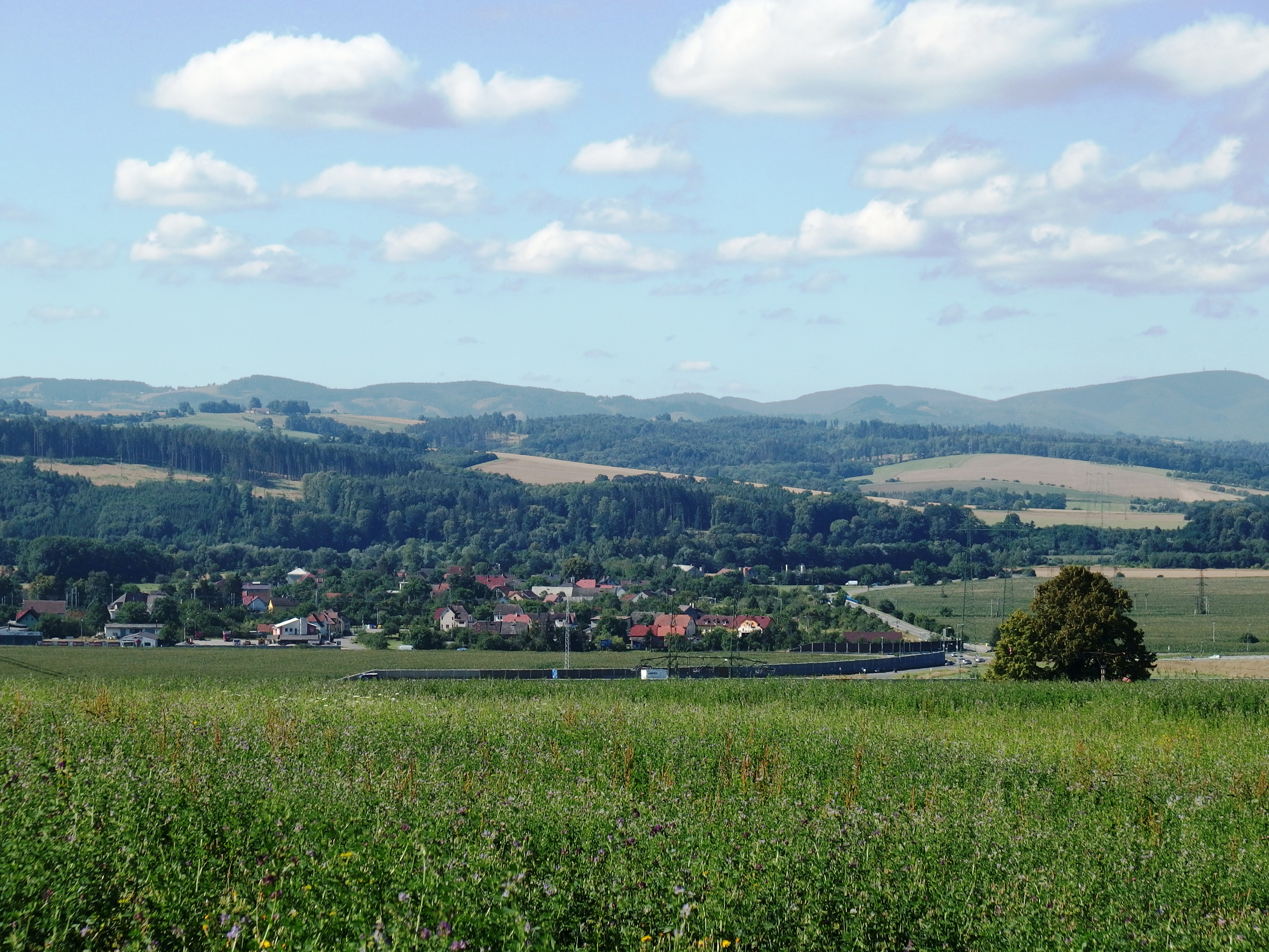 Lešná, Vsetín District, Czech Republic, part Lhotka nad Bečvou.